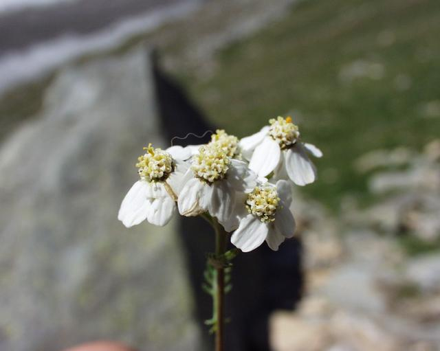 (en) Musk Milfoil (Achillea moschata), a photography originating of the internet site The accord of the autor, H. Brisse, is here. (fr) Achillée musquée (Achillea moschata), une photographie issue du site internet L'accord de l'auteur, H. Brisse, se situe ici. (de)Moschus-Schafgarbe, (it)Millefoglio del granito